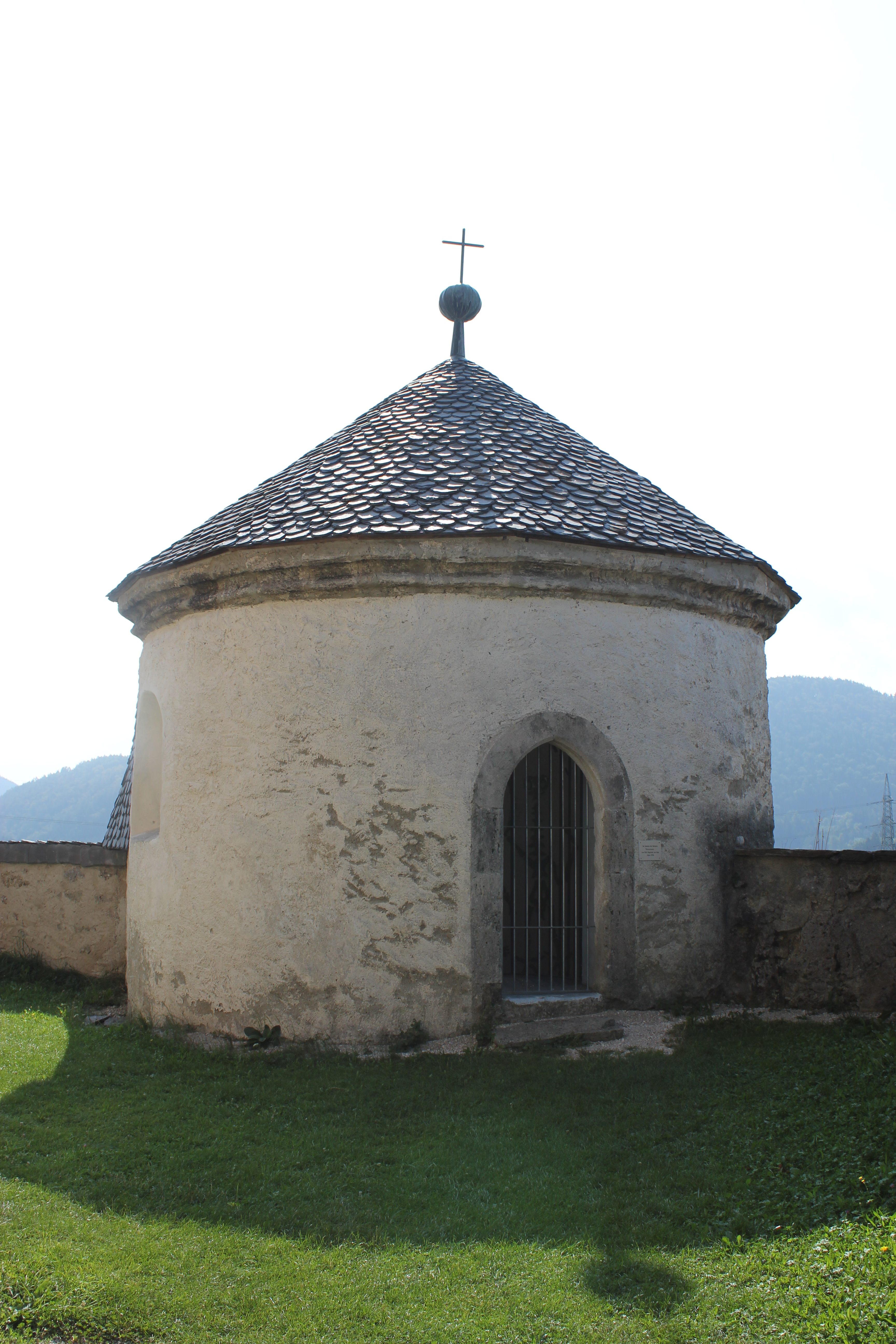 Ossuary in Stein im Jauntal in the community of Sankt Kanzian am Klopeiner See